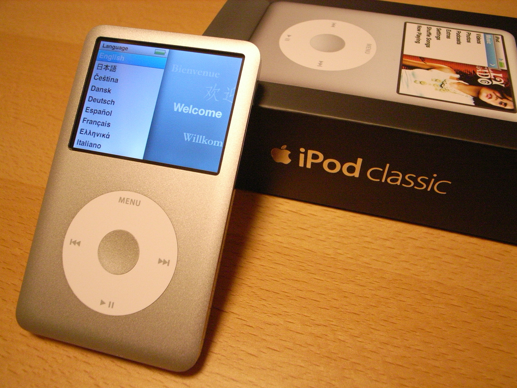 iPod Classic 80GB Silver, Next to original box.